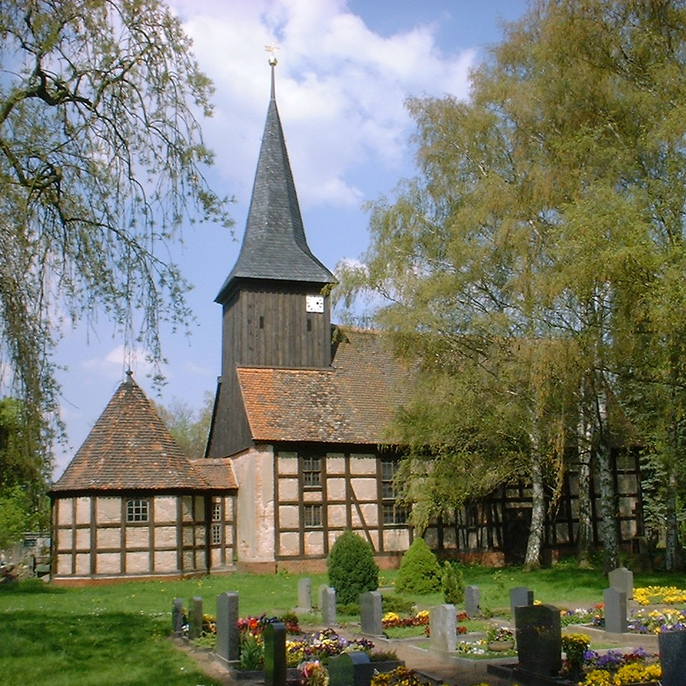 Church in Nauen-Markee in Brandenburg, Germany